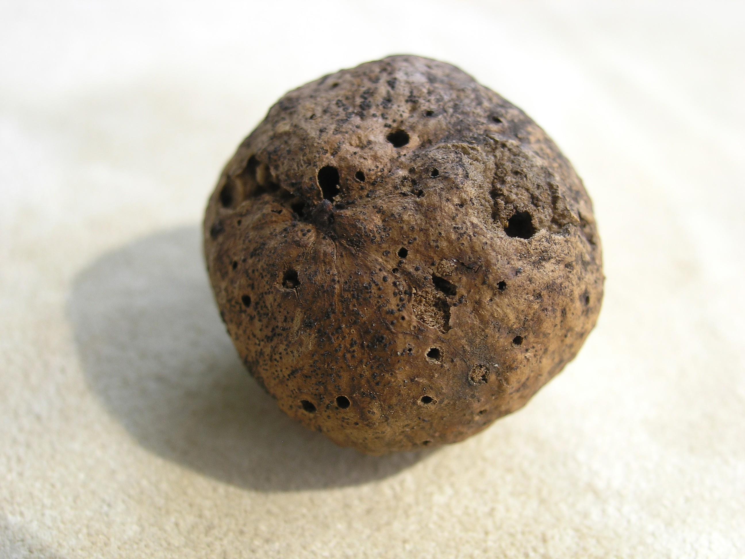 Photograph of Andricus kollari oak gall